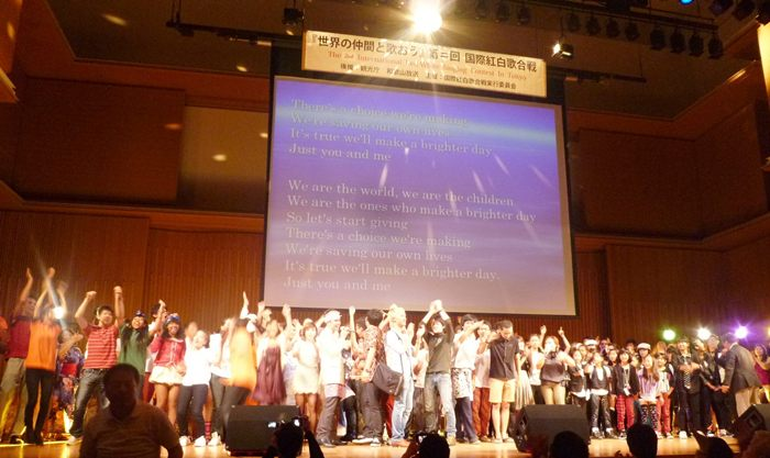 国際紅白歌合戦 Red-White singing contest